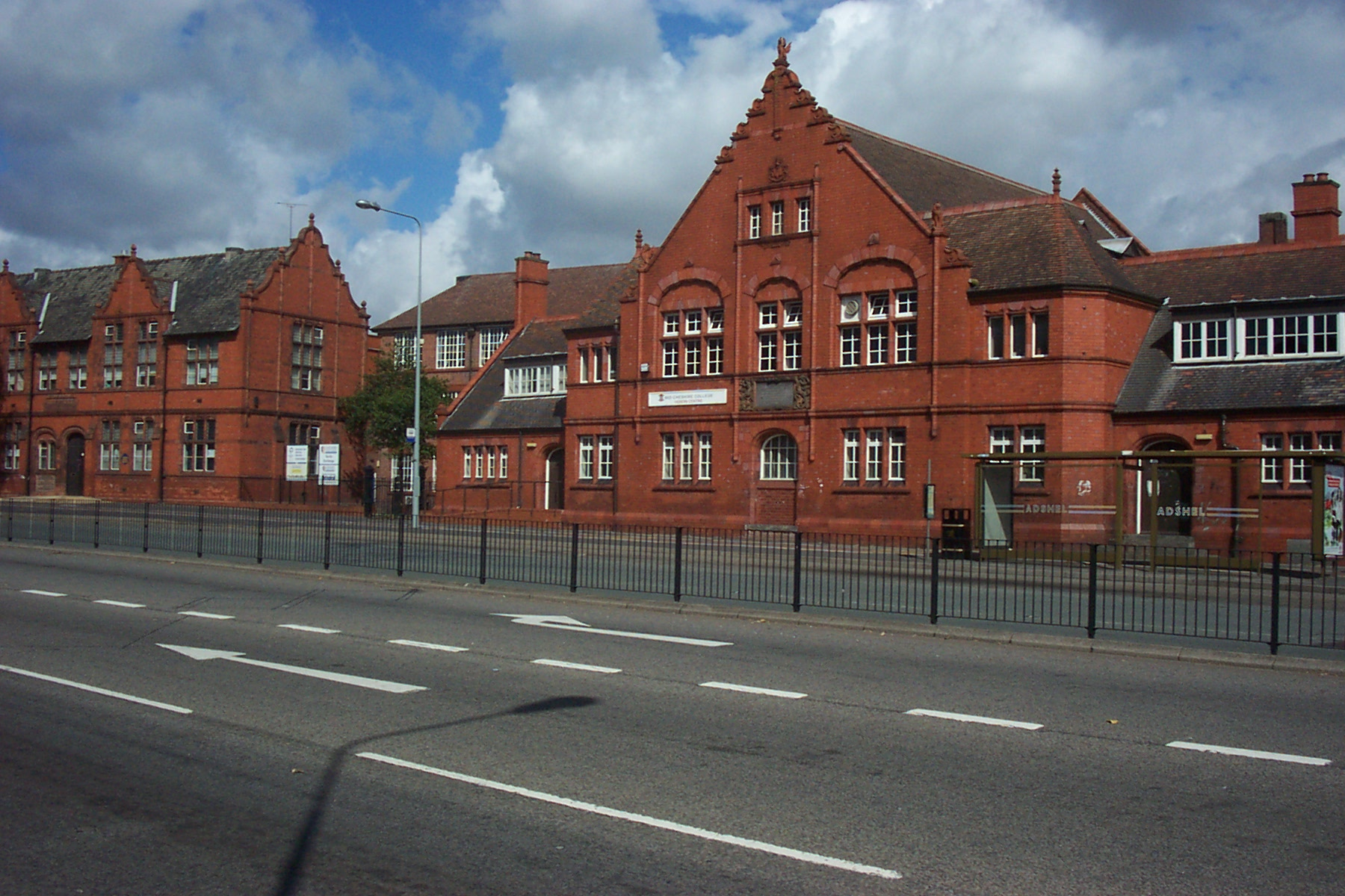 Author: Ian Anstice. View from Winsford Civic Hall looking across the High Street towards the Brunner Guildhall. IantheLibrarian 19:08, 15 August 2006 (UTC)